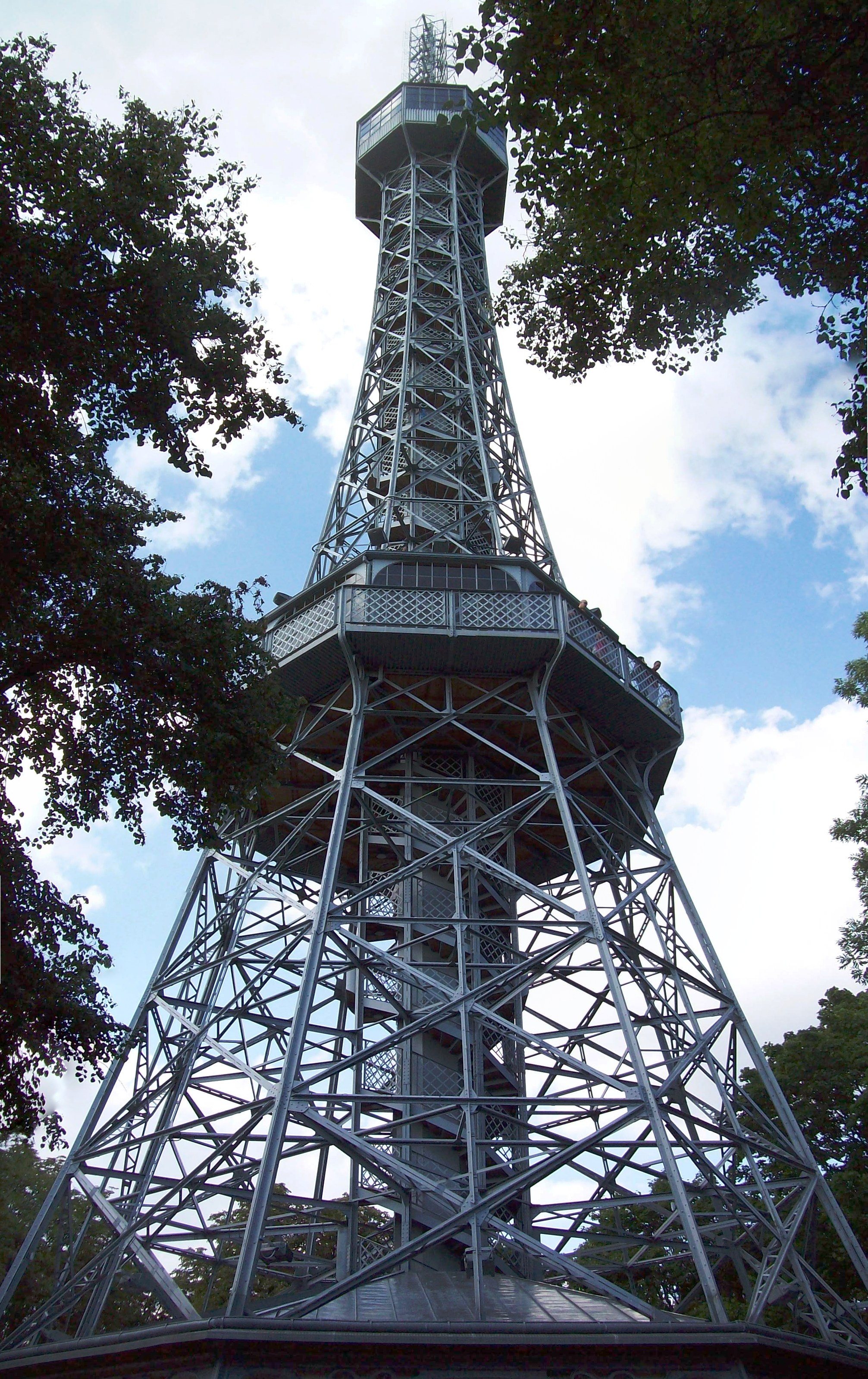 Petřín Lookout Tower at Praga